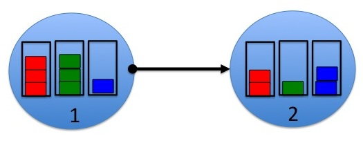 A closeup of 2 nodes in a multi-hop network that uses backpressure routing, showing the internal queues. The optimal commodity to send over the link is illustrated.